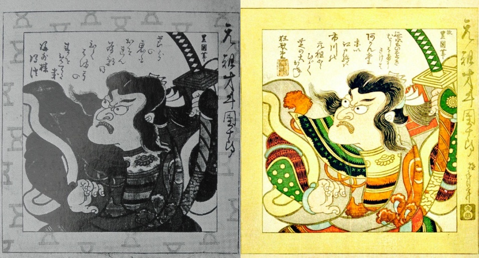 Ichikawa Danjūrō I, from a surimono series by Toyokuni I depicting the Danjūrō generations, left first edition, c. 1820-21, right second edition, c. 1832